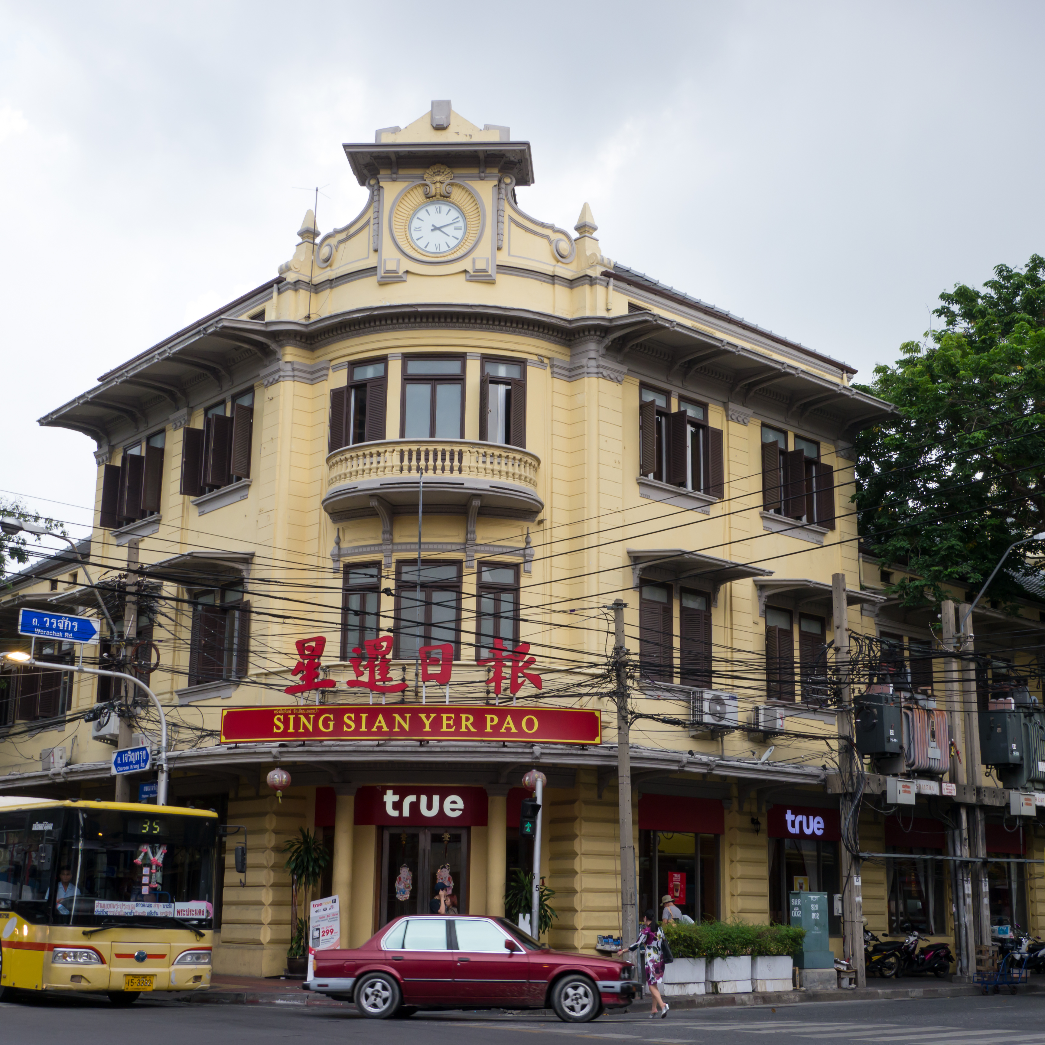 ตึก S.A.B.